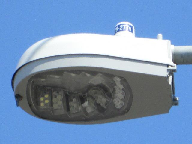 History of street lighting